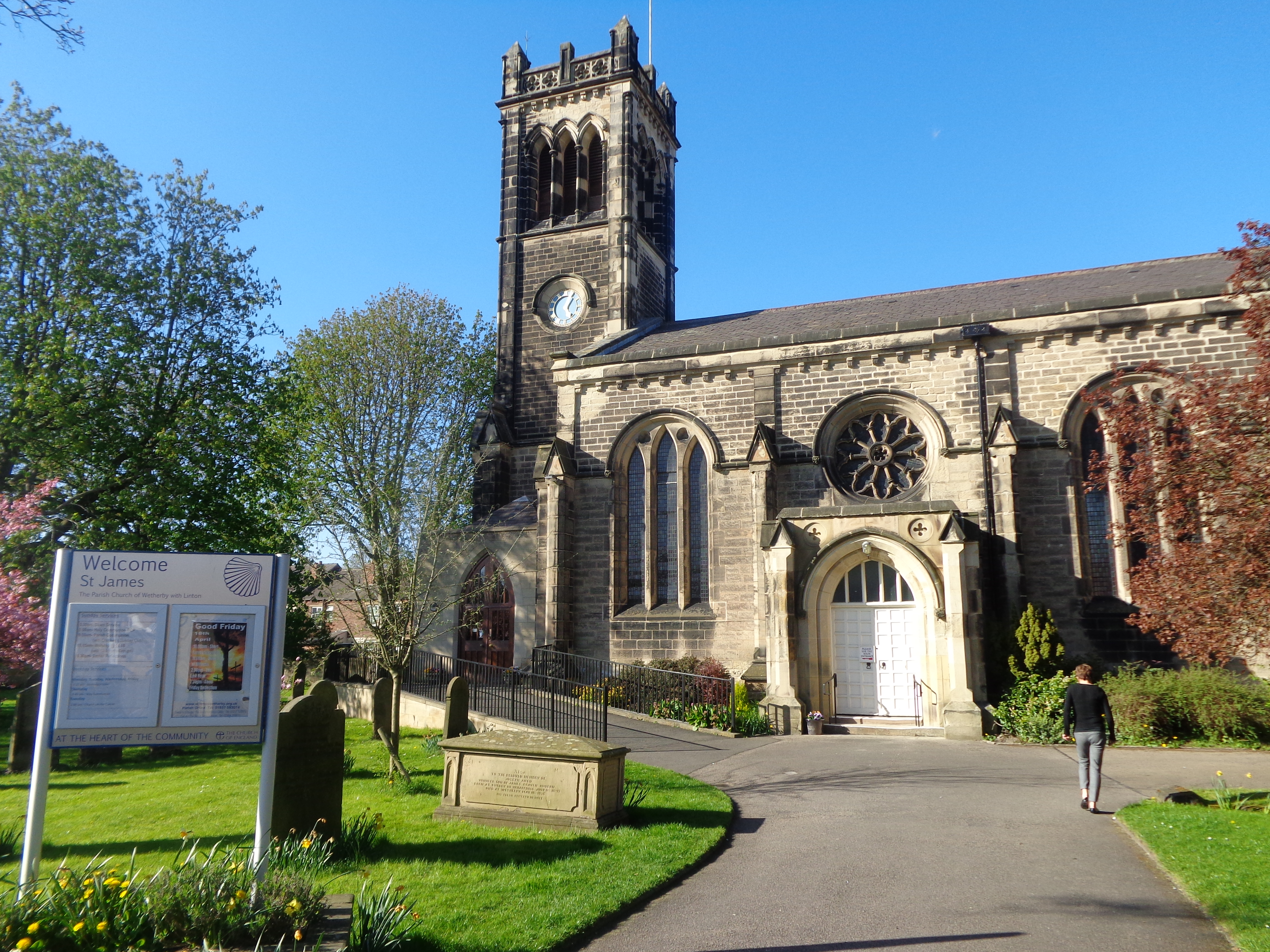 St. James' Church, Wetherby, West Yorkshire. Taken on the afternoon of Good Friday the 18th of April 2014.